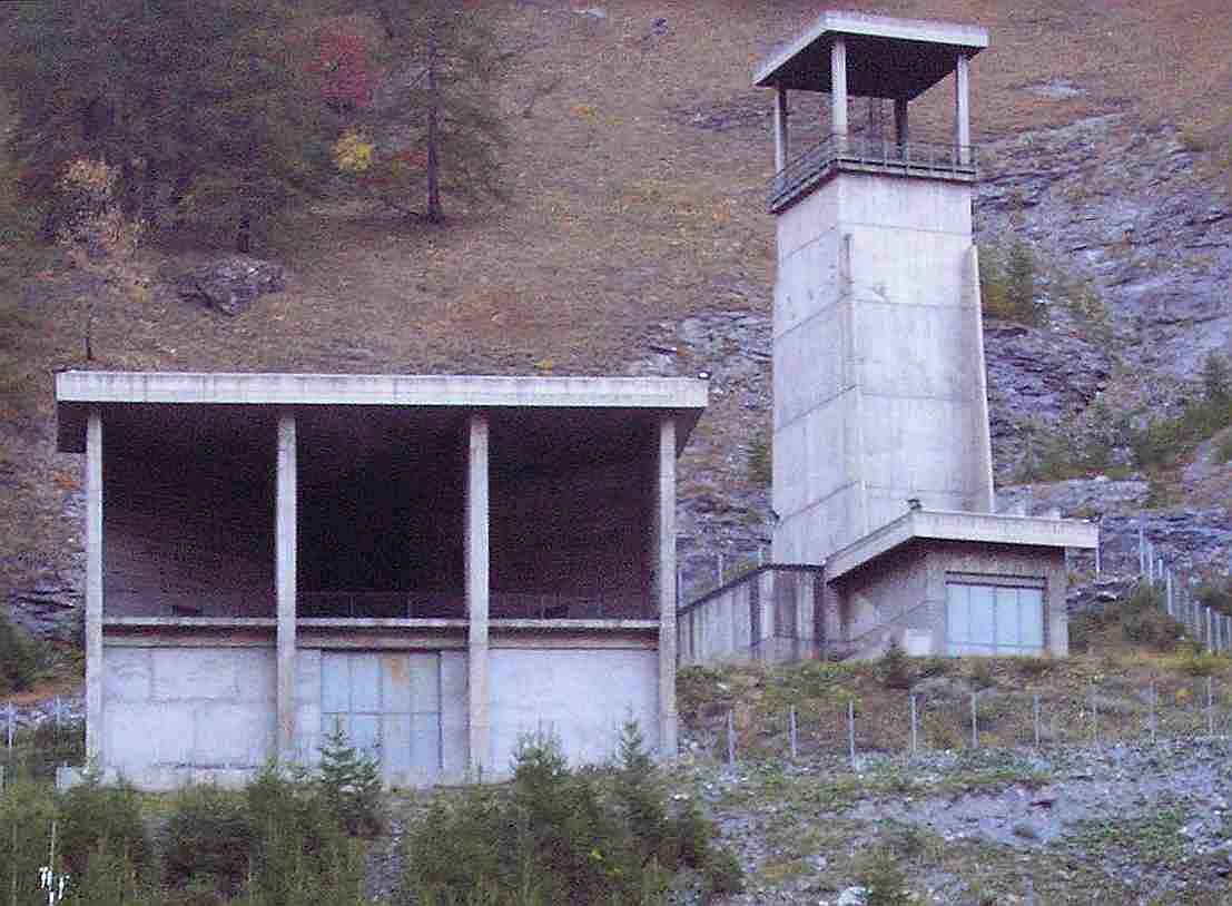 Motorway tunnel of Frejus: one of the chimneys (Italian side)